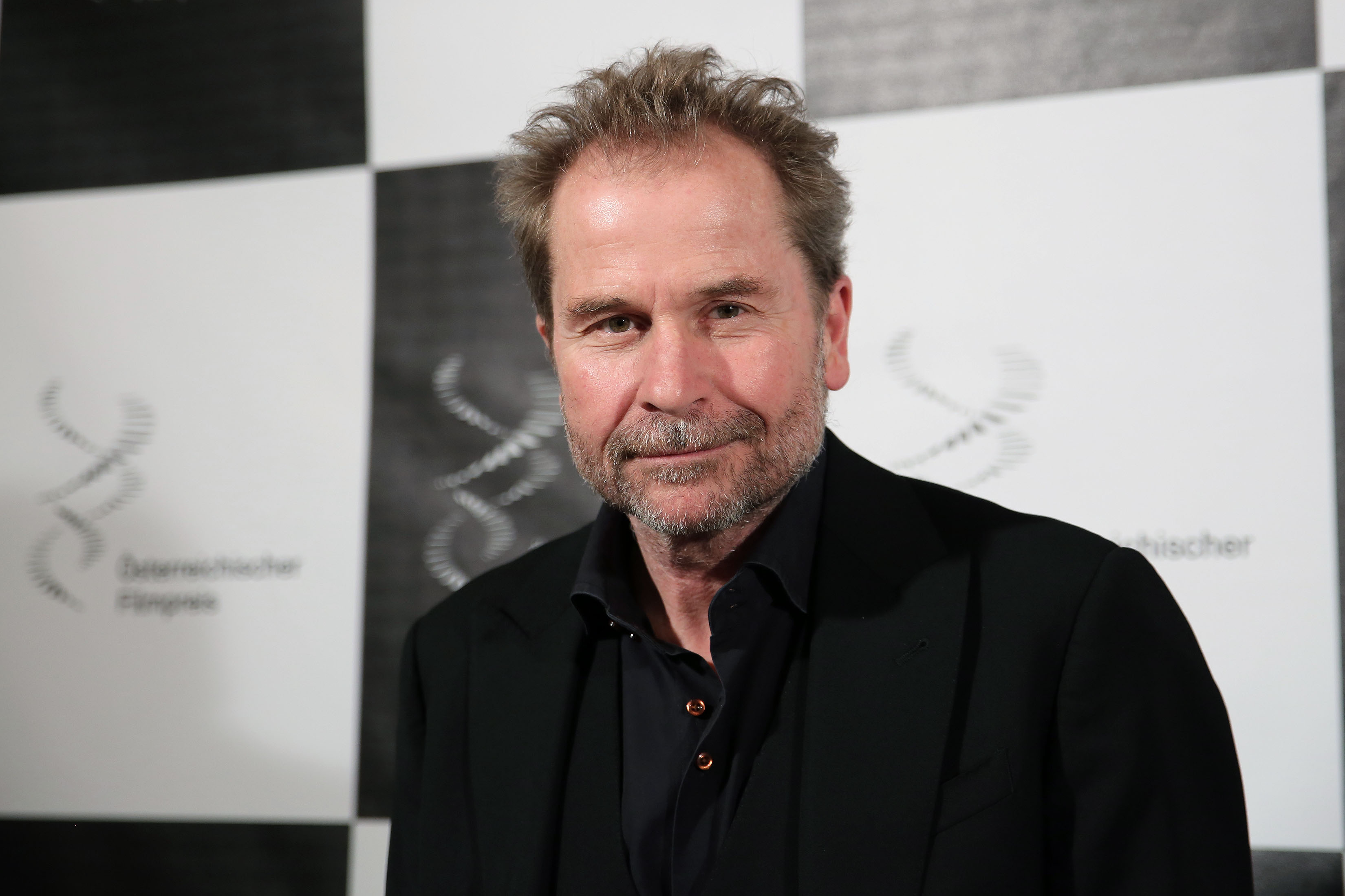 Ulrich Seidl, Austrian Film Awards 2013 (Vienna).